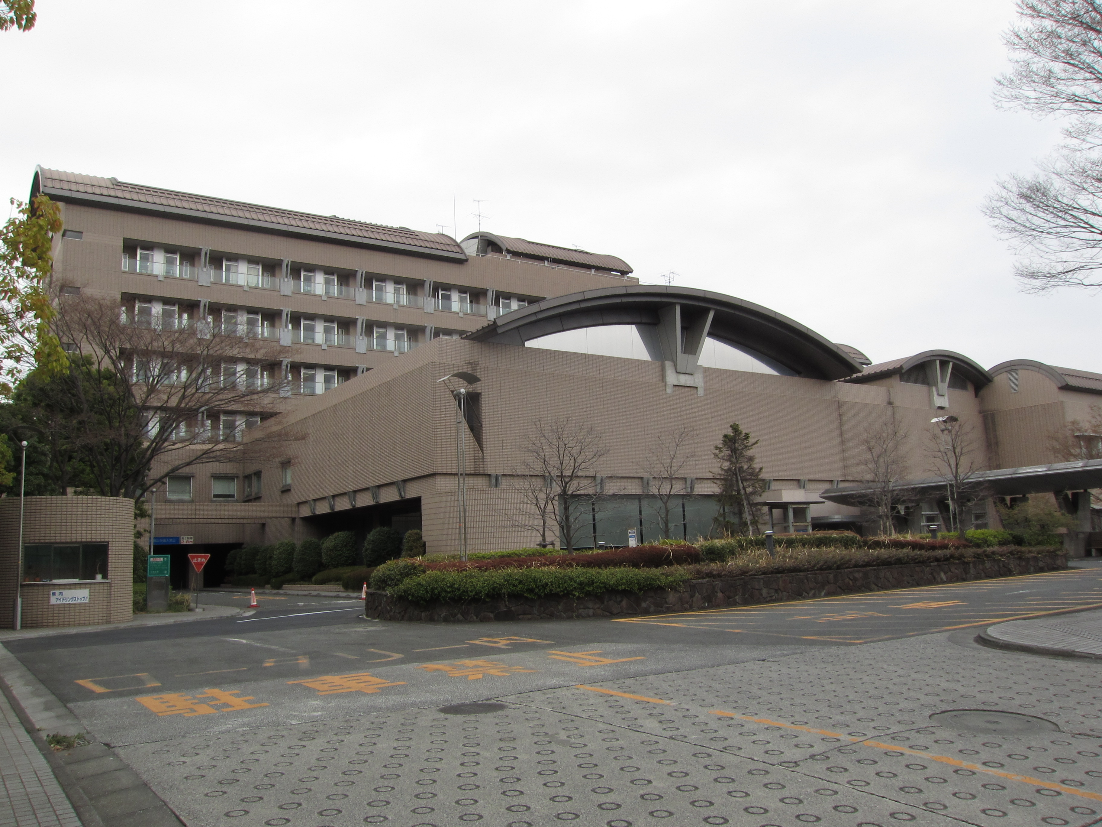 Tama-Nanbu Chiiki Hospital